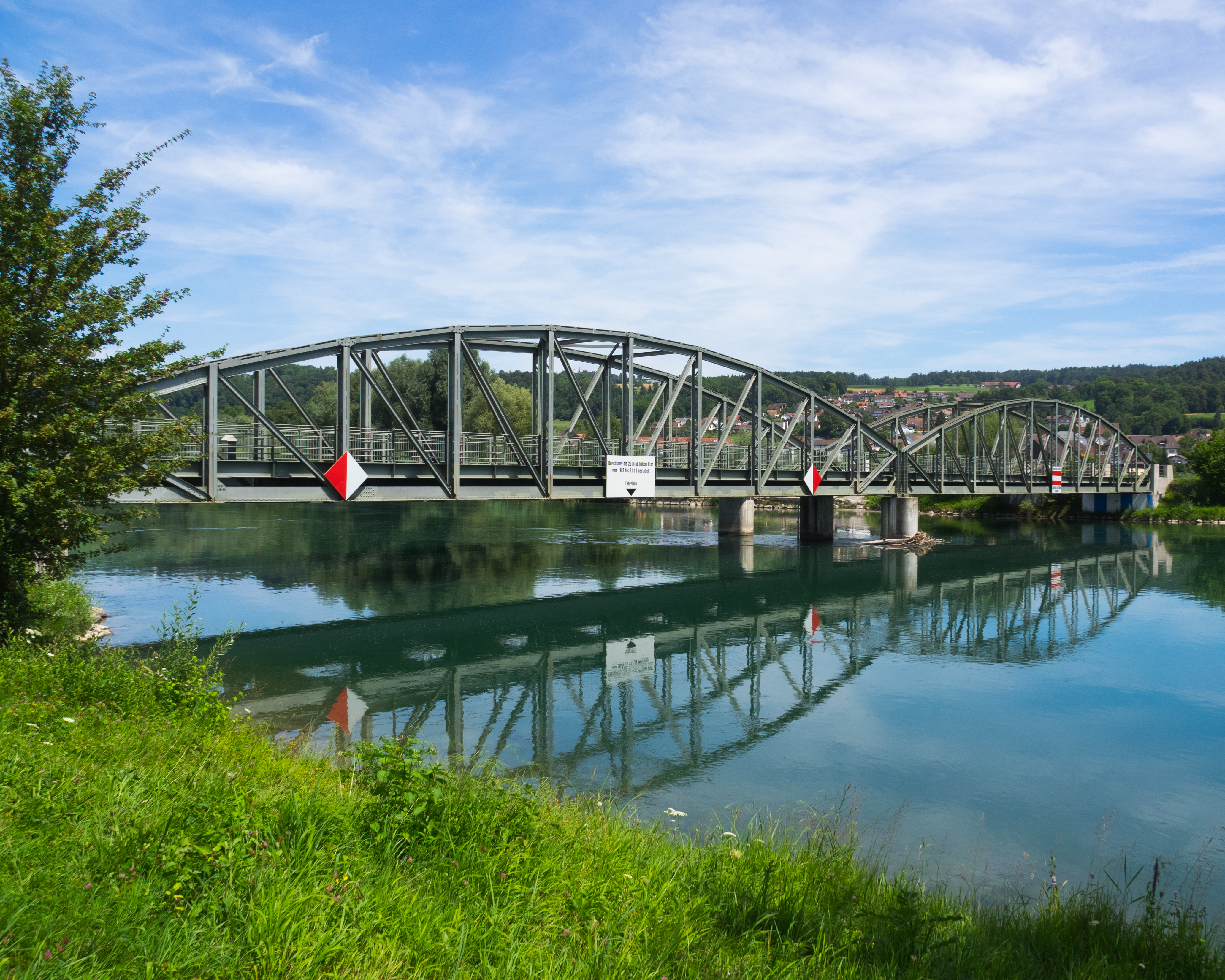 Rottenschwil Bridge over the Reuss River, Rottenschwil - Unterlunkhofen, Aargau, Switzerland